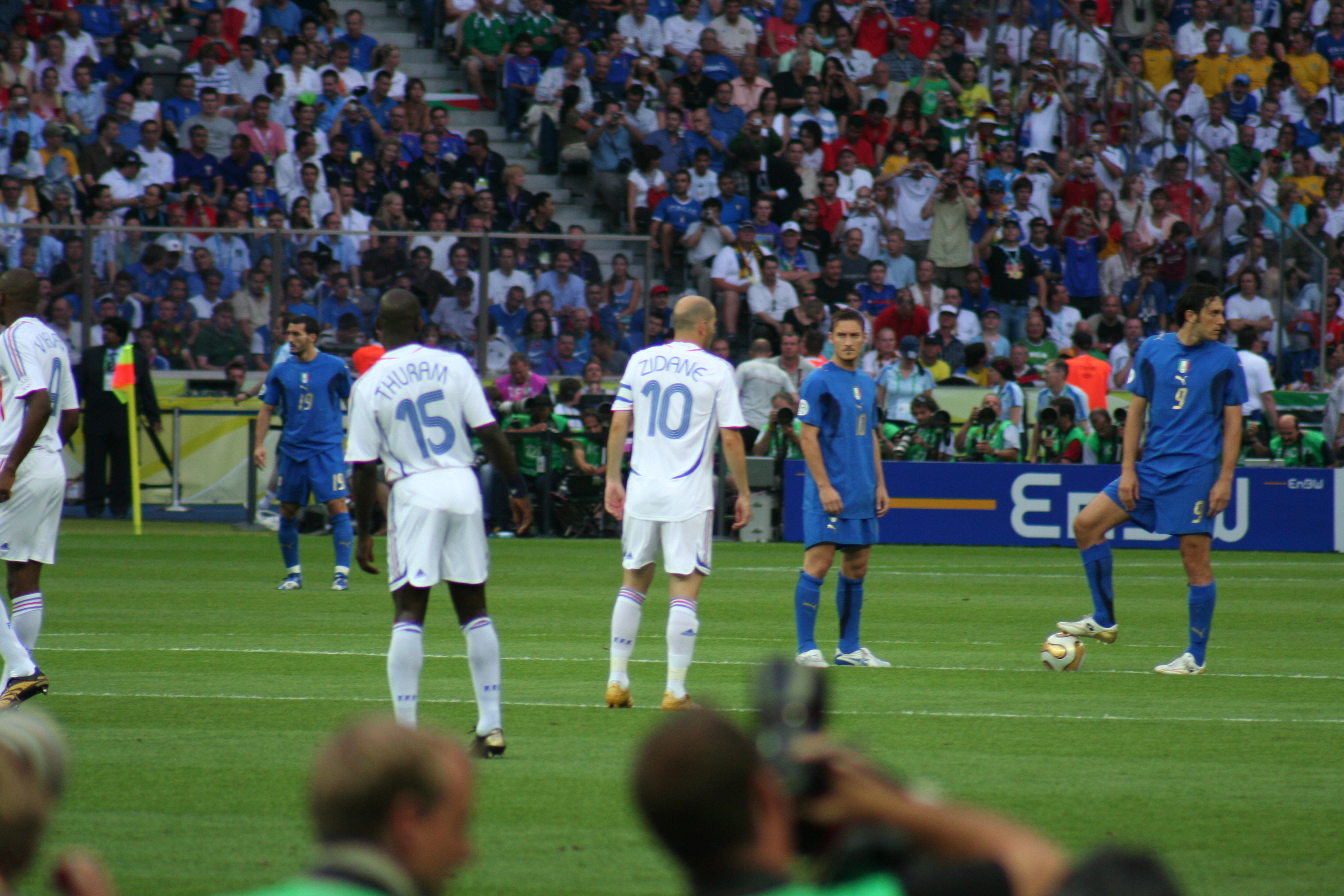 Italy and France in world cup final 2006